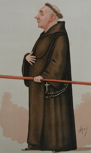 Caricature of Joseph Leycester Lyne (1837-1908) aka Father Ignatius.